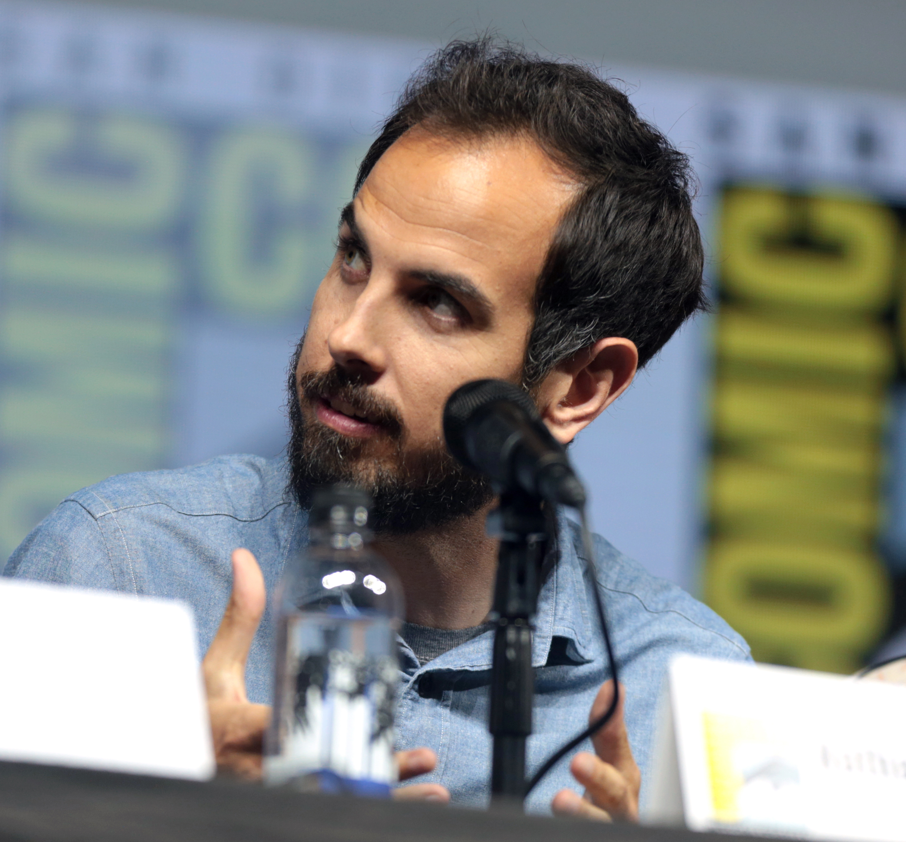 Nathaniel Halpern speaking at the 2018 San Diego Comic Con International, for "Legion", at the San Diego Convention Center in San Diego, California.